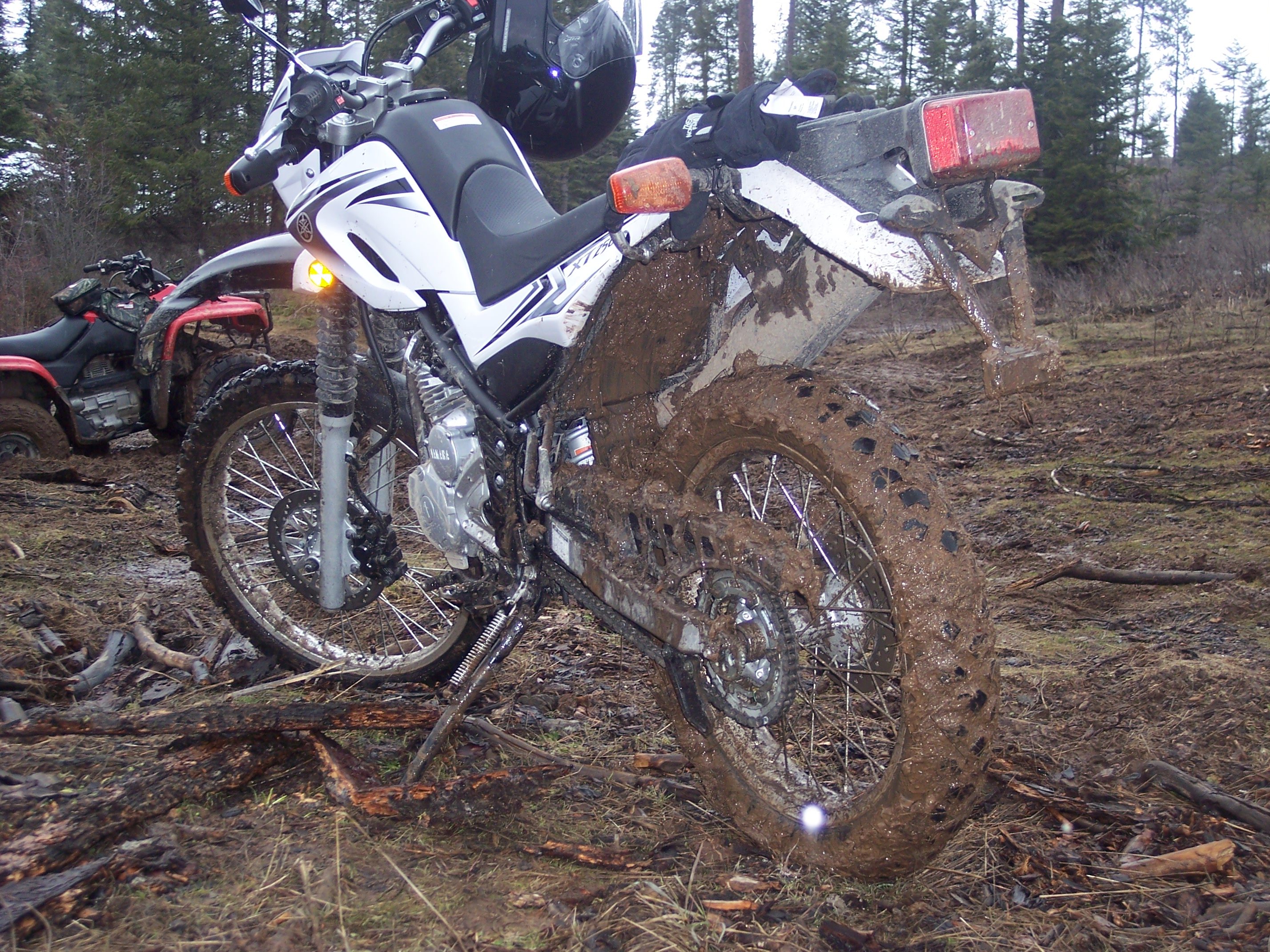 The new bike got muddy Yamaha XT250